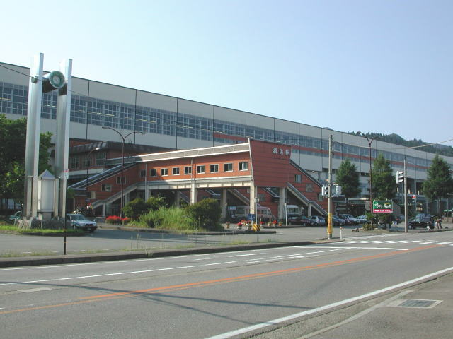 Urasa Station East Exit